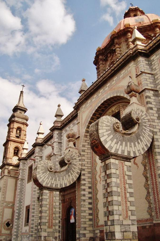 Saint Rose of Viterbo Church and Convent, Santiago de Queretaro, Queretaro, Mexico